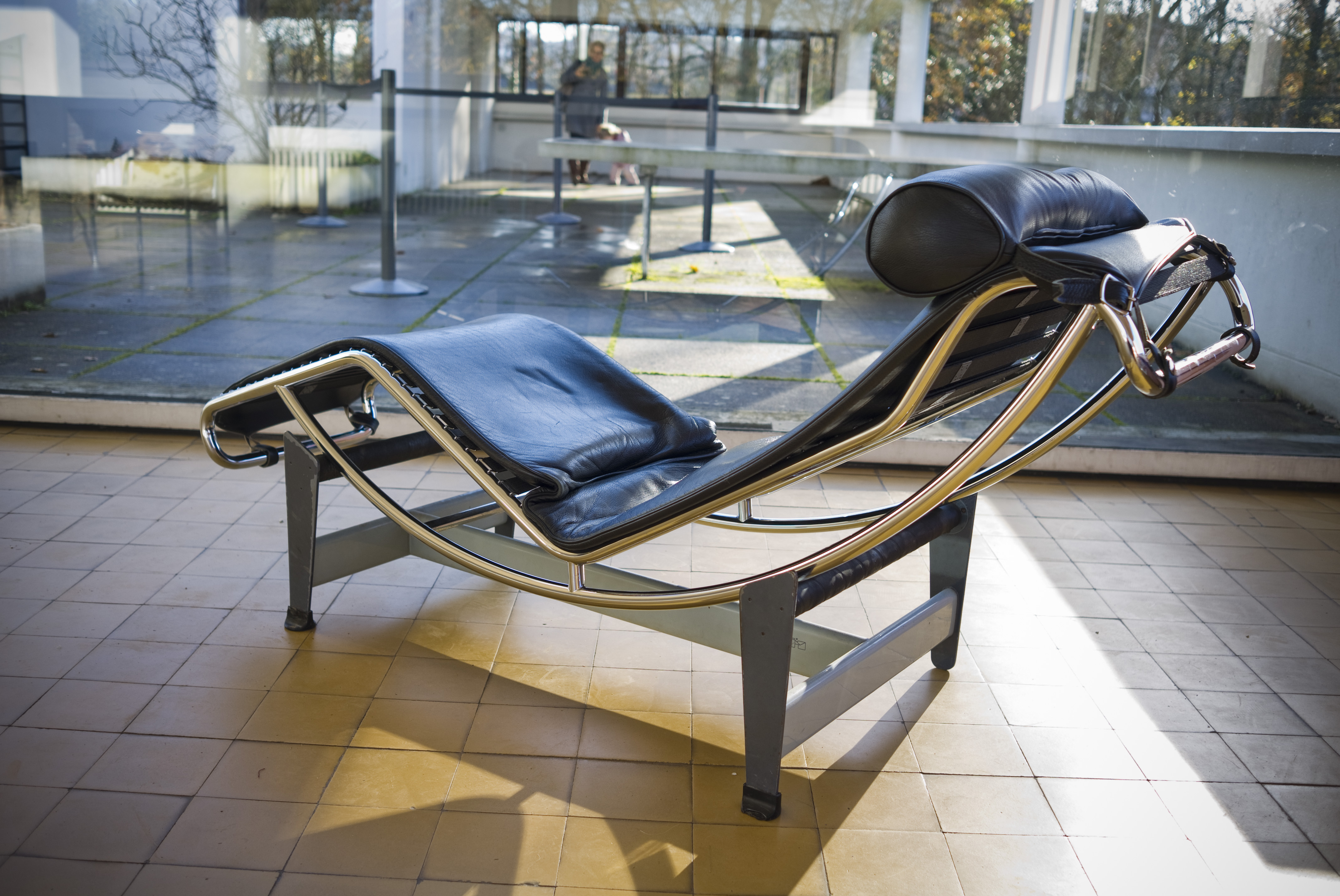 LC4 Chaise Longe designed by Le Corbusier and Charlotte Perriand